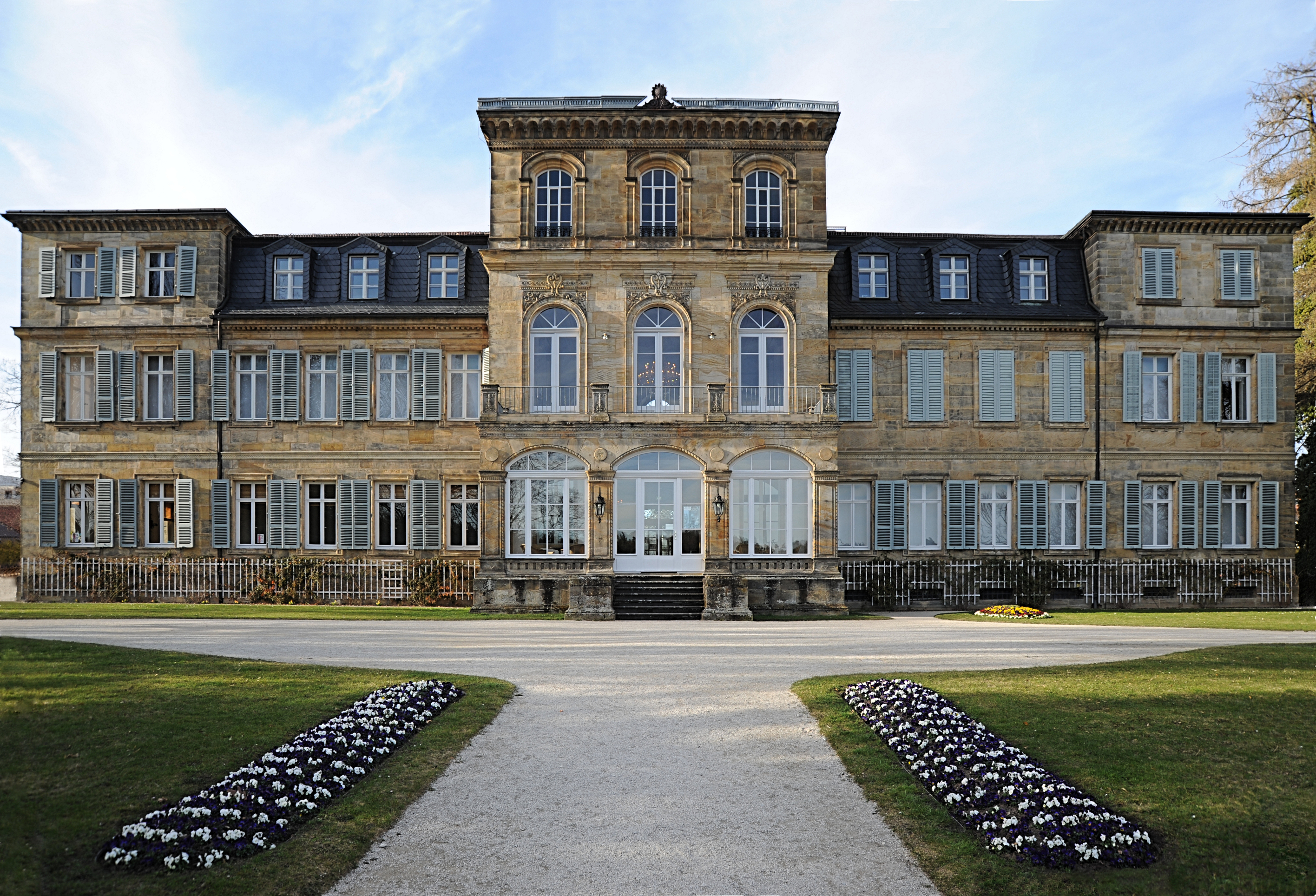 South facade of palace Fantaisie in Eckersdorf, district Bayreuth, Germany